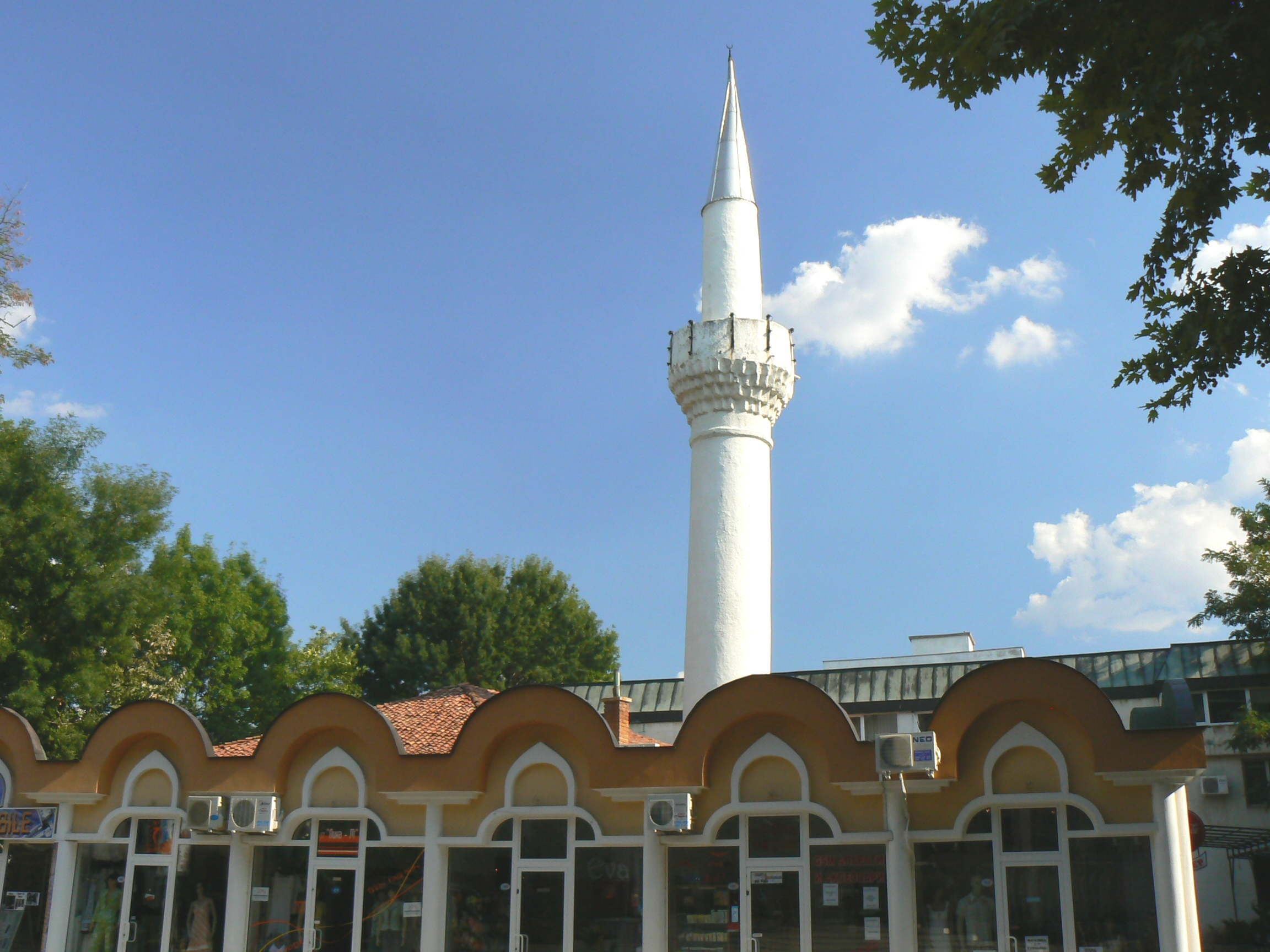 Mosque built in year 1393, in Haskovo, Bulgaria